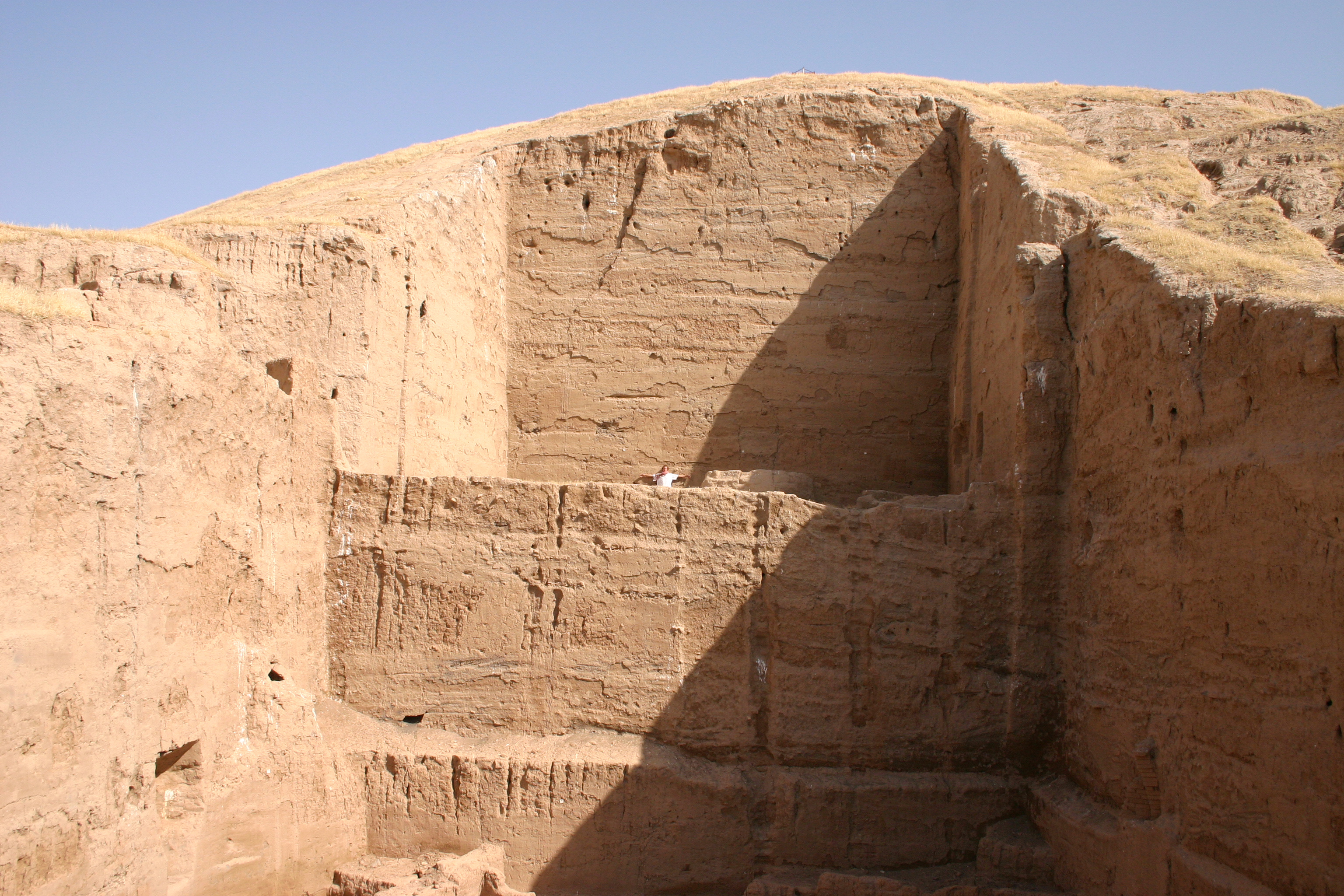 View from the southeast of an excavation area at Tell Barri (northeast Syria). Note the person standing in the middle for scale.